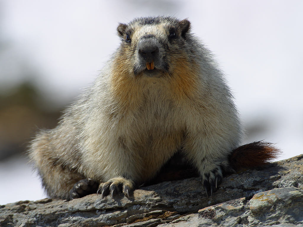 Yellow-bellied Marmot (Marmota flaviventris), Glacier National Park, Montana, USA